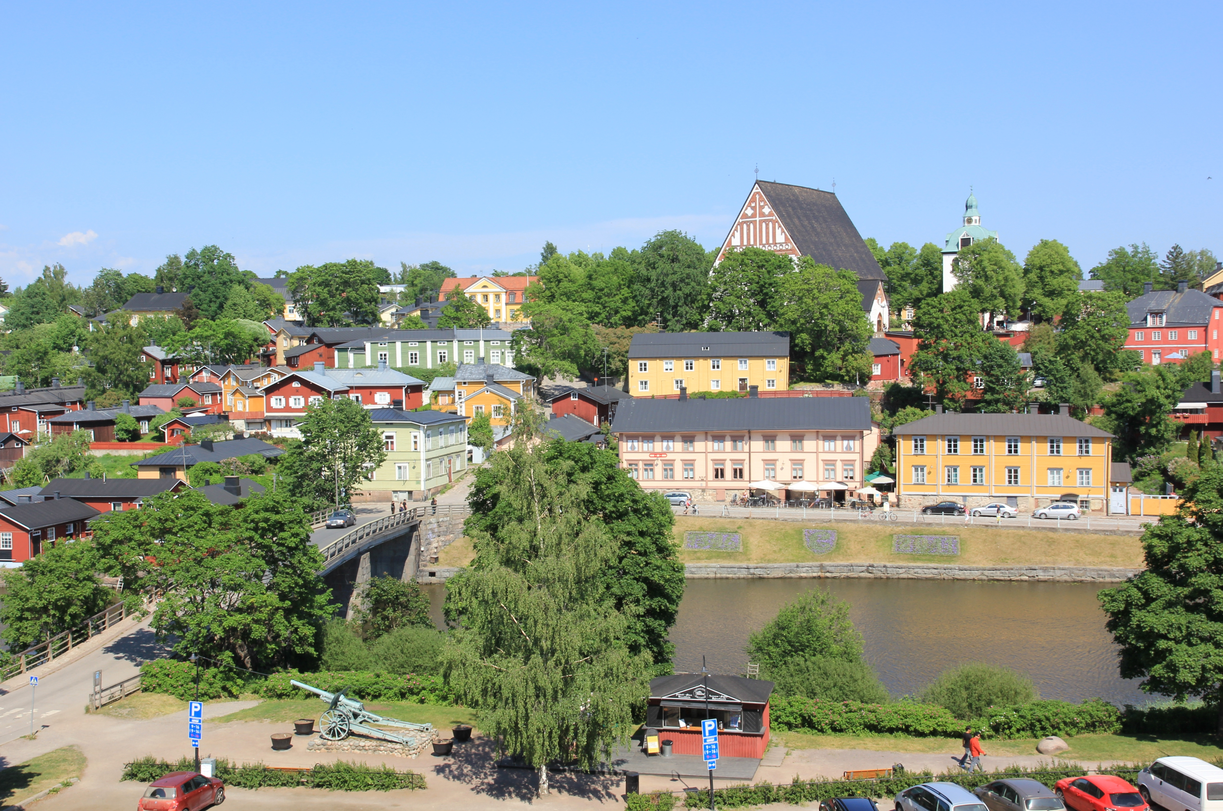 Porvoo cathedral and Porvoonjoki river photographed from Näsinmäki hill.